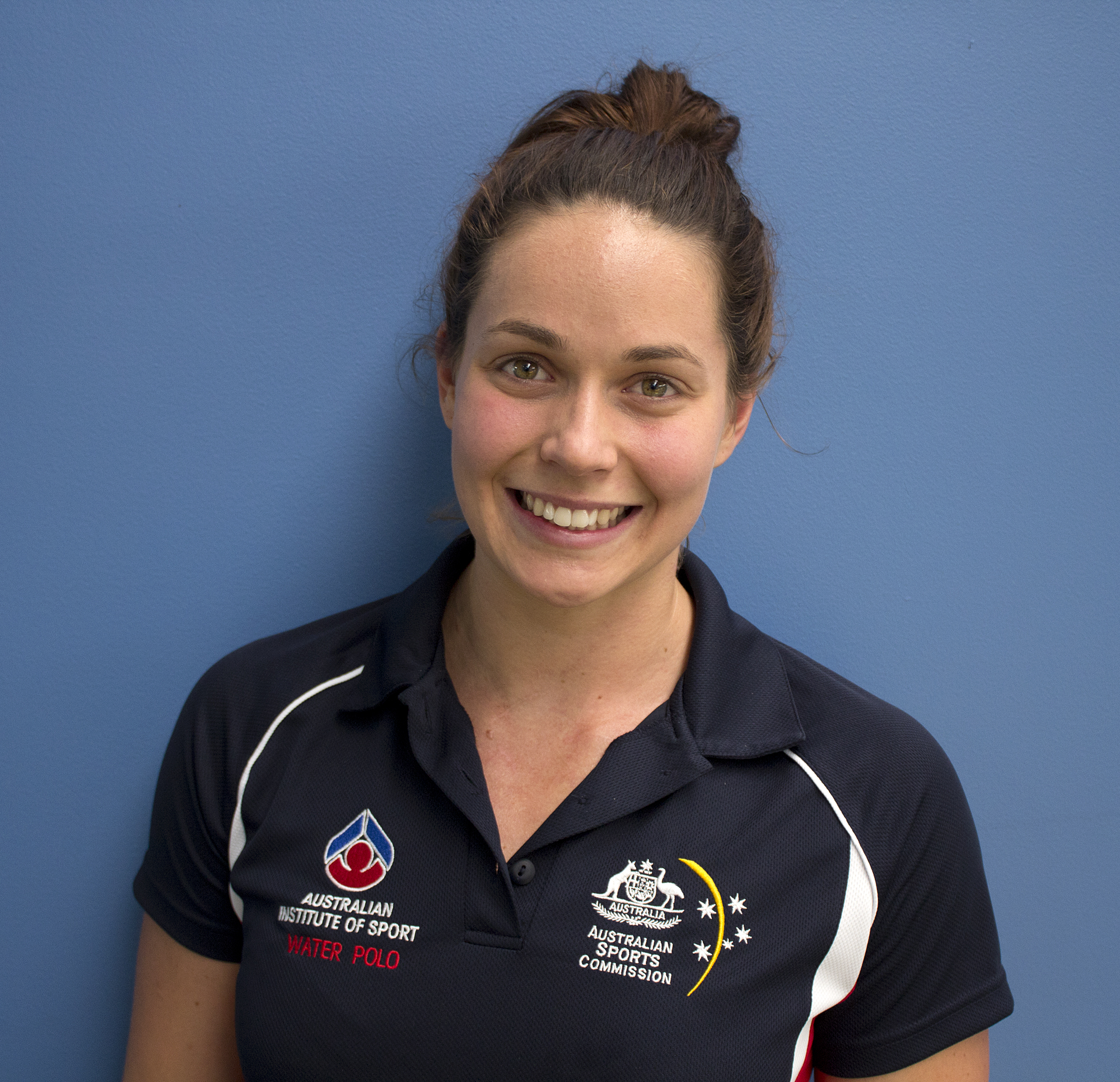 A portrait of Nicola Zagame Australian women's national water polo player.